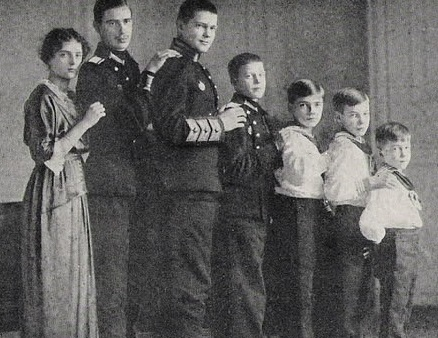 Children of Grand Duchess Xenia Alexandrovna of Russia